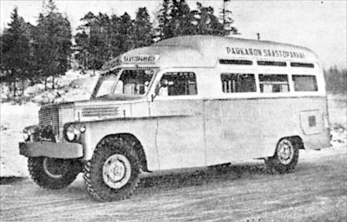 Drive-through bank in Parkano